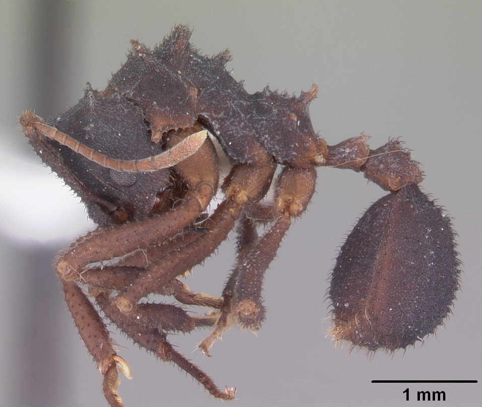 Profile view of ant Trachymyrmex jamaicensis specimen casent0102743.